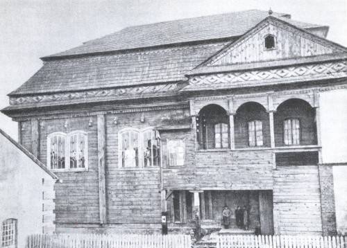 synagogue in Końskie; author unknown; first published (probably) in 1930s, (probably) in daily polish newspaper in Końskie (Poland)